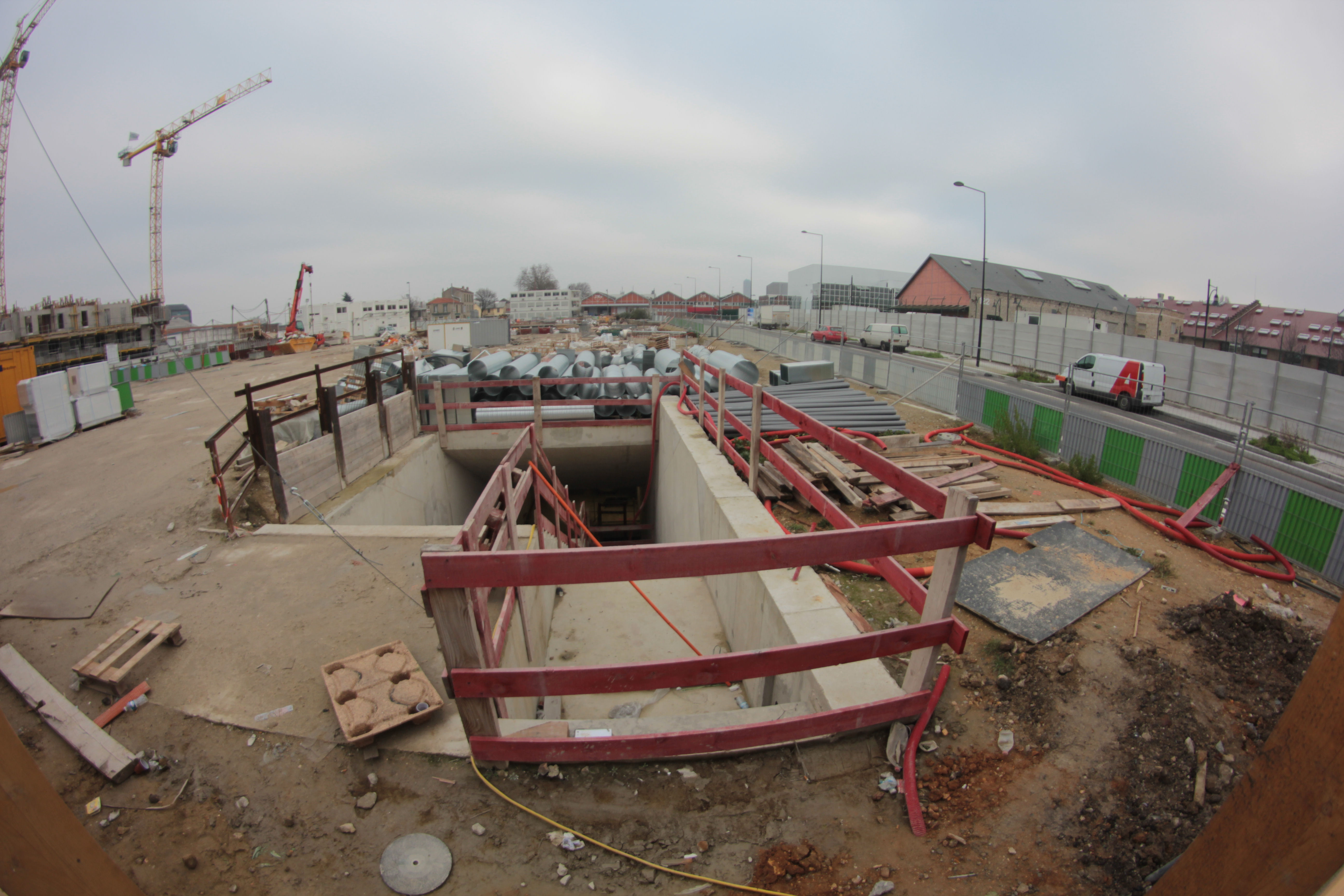 The metro station under construction Front Populaire (previously known as Proudhon-Gardinoux) of Parisian metro line 12 on the border of the communes of Saint-Denis and Aubervilliers, january 2012